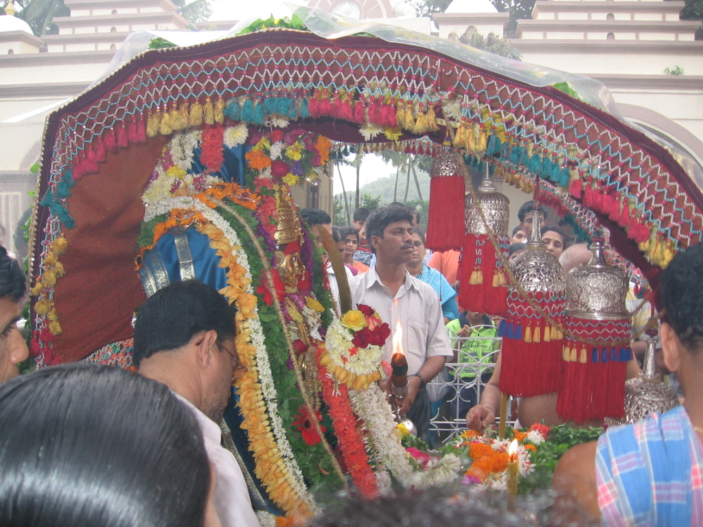 Created by Devayani Tirthali. Photo clicked in July 2006 in the Mahalasa Temple, Mhardol.